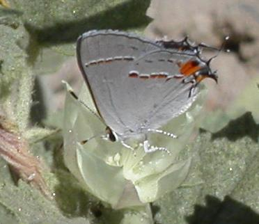 Grey Hairstreak — Strymon melinus. Butterfly, at the Mokelumne River, near Lodi, California. I took this picture.